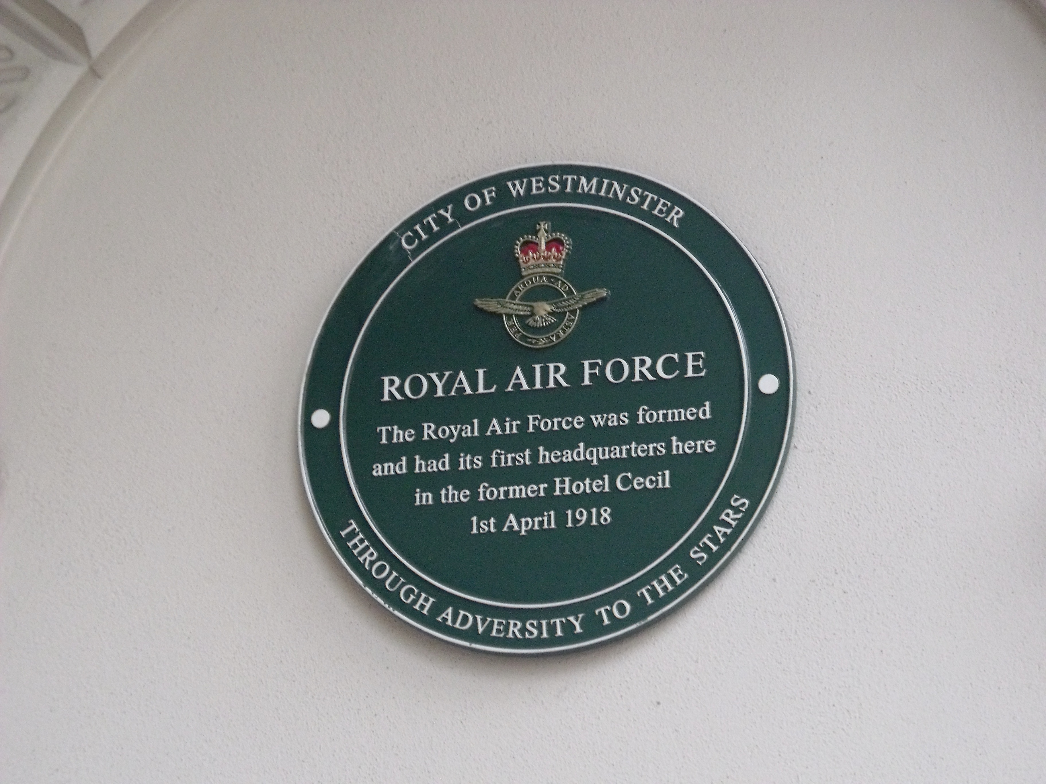 A green plaque on a hotel on the Strand in London. In the former Hotel Cecil, the Royal Air Force was formed, and its first headquarters were here. The RAF was formed more than 90 years ago in 1918, in the final year of the First World War. This plaque was unveiled last year in 2008, on the 90th anniversary of the RAF's formation. It is now the Shell-Mex House (which was built in 1930-31 on the site of the Hotel Cecil).